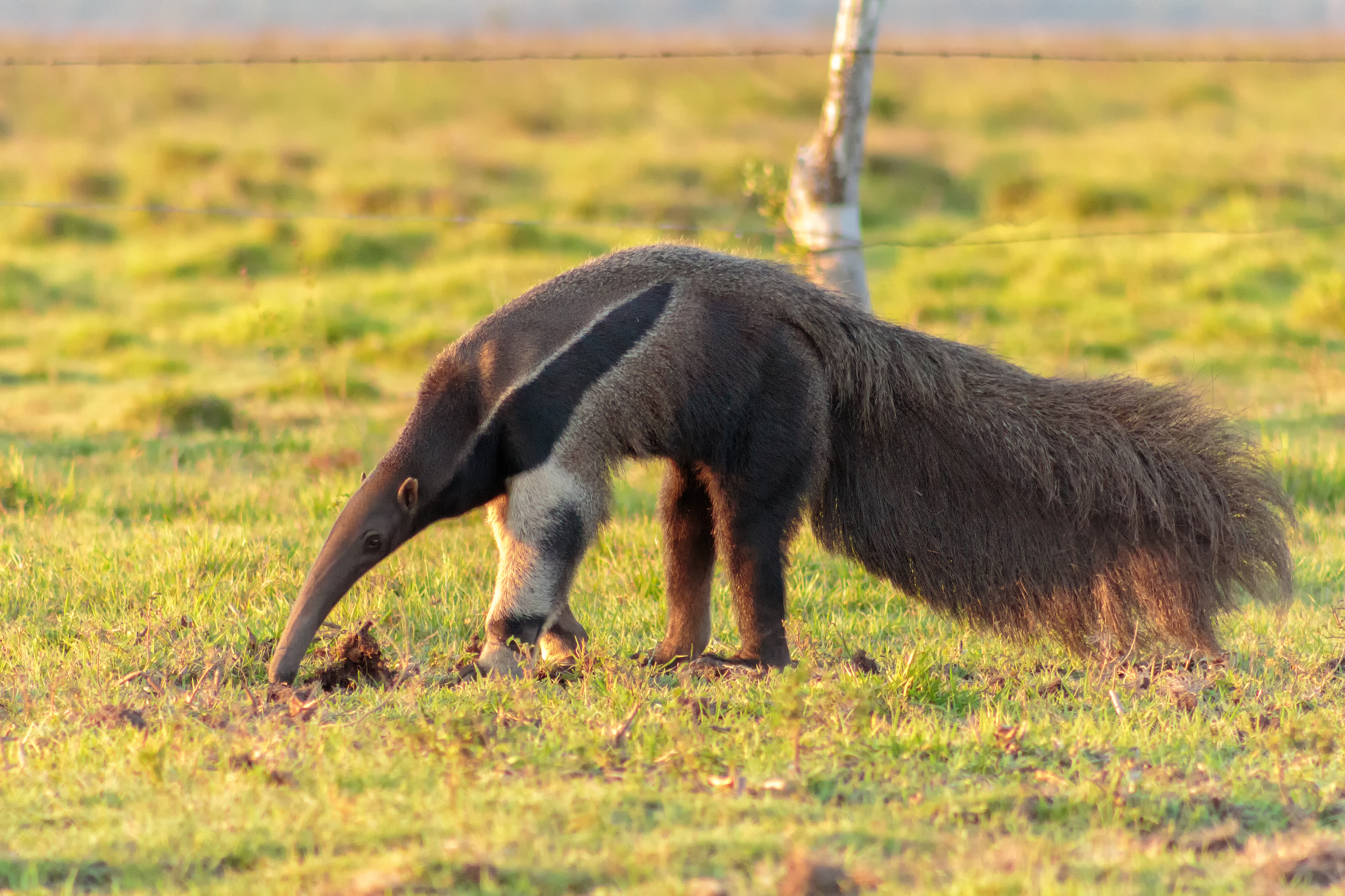 Giant anteater